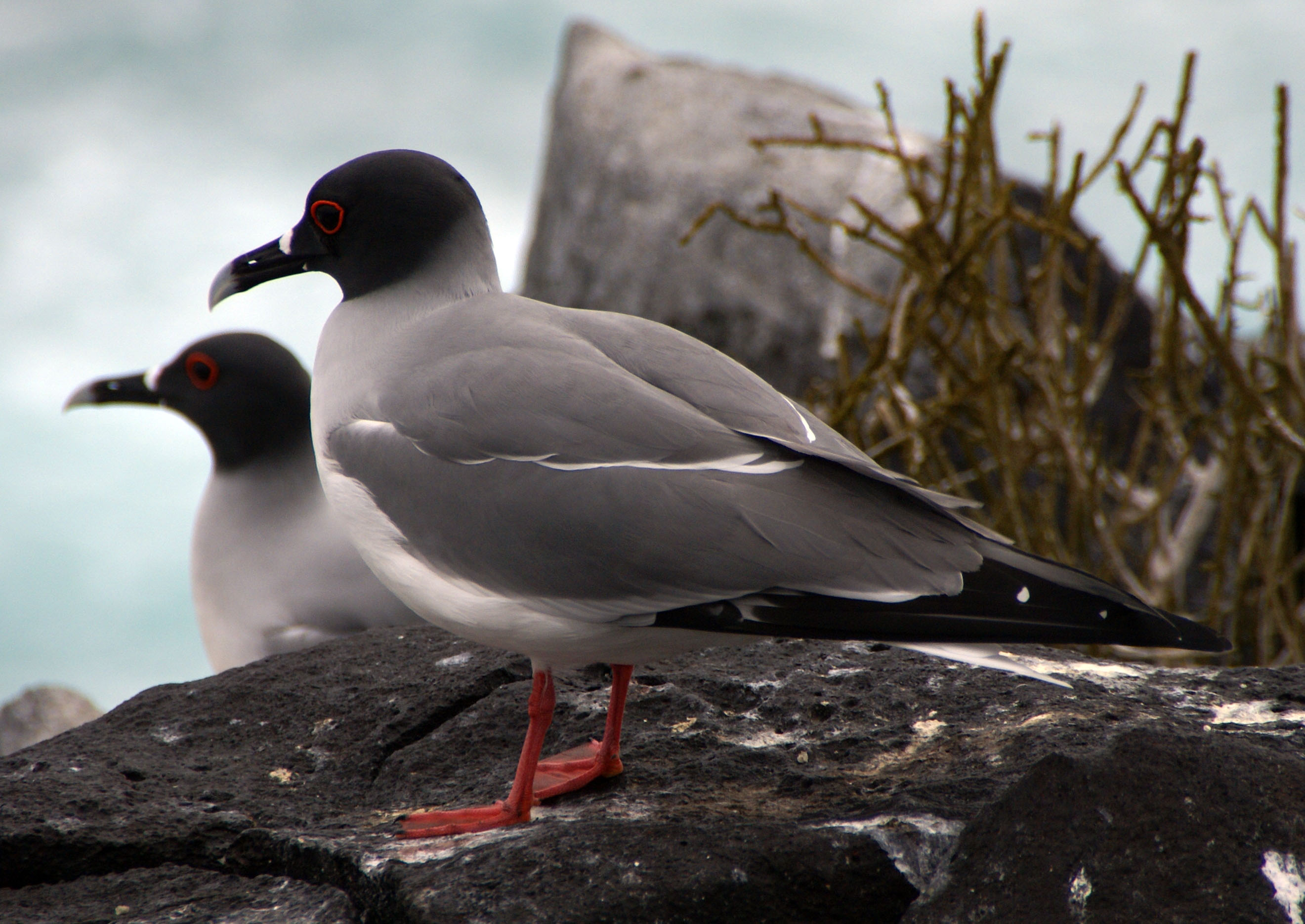 Swallow-tail Gulls (Creagrus furcatus) at Punta Suarez, Espanola Island, Galapagos Islands.